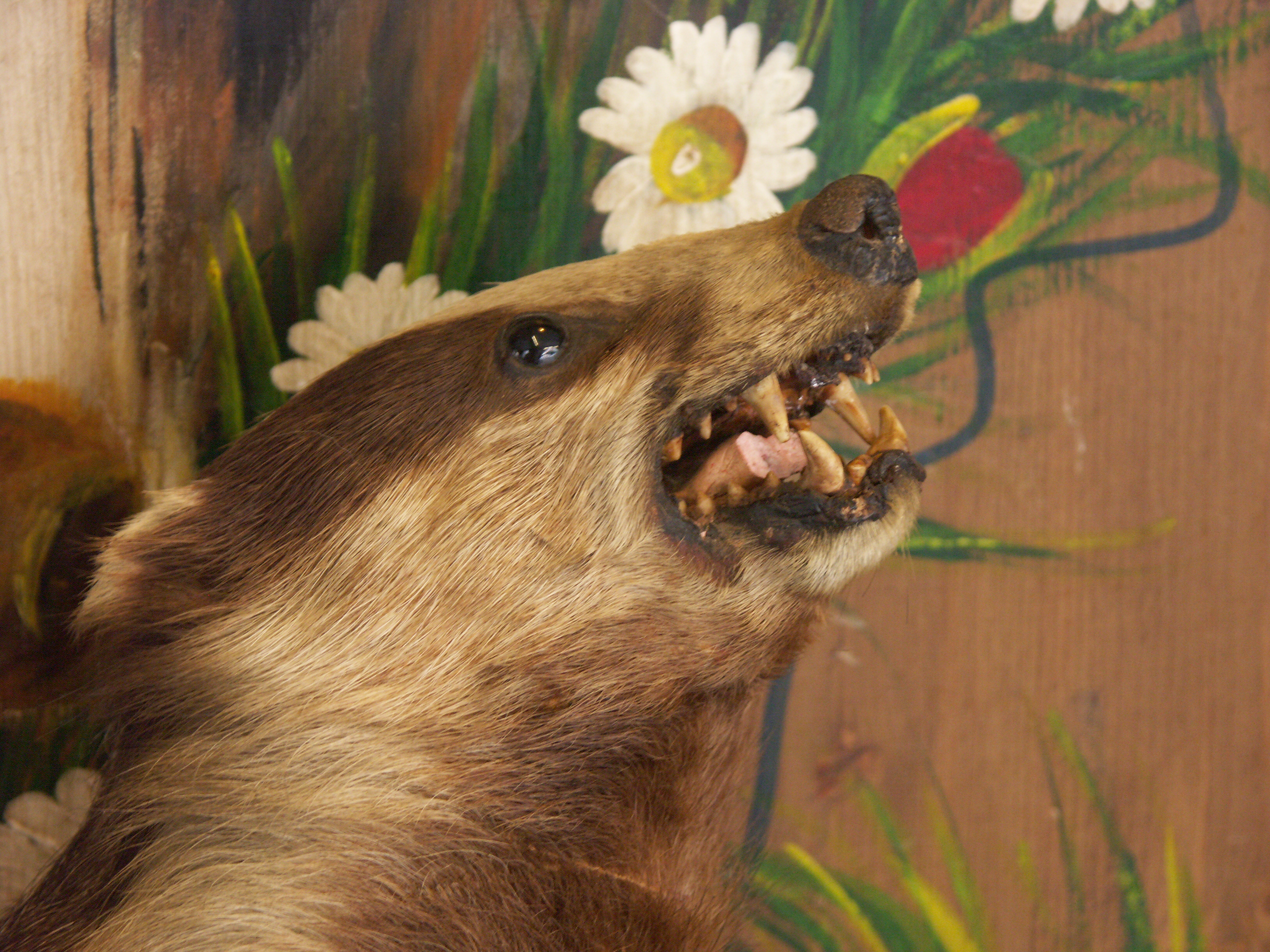 A stuffed erythristic European badger